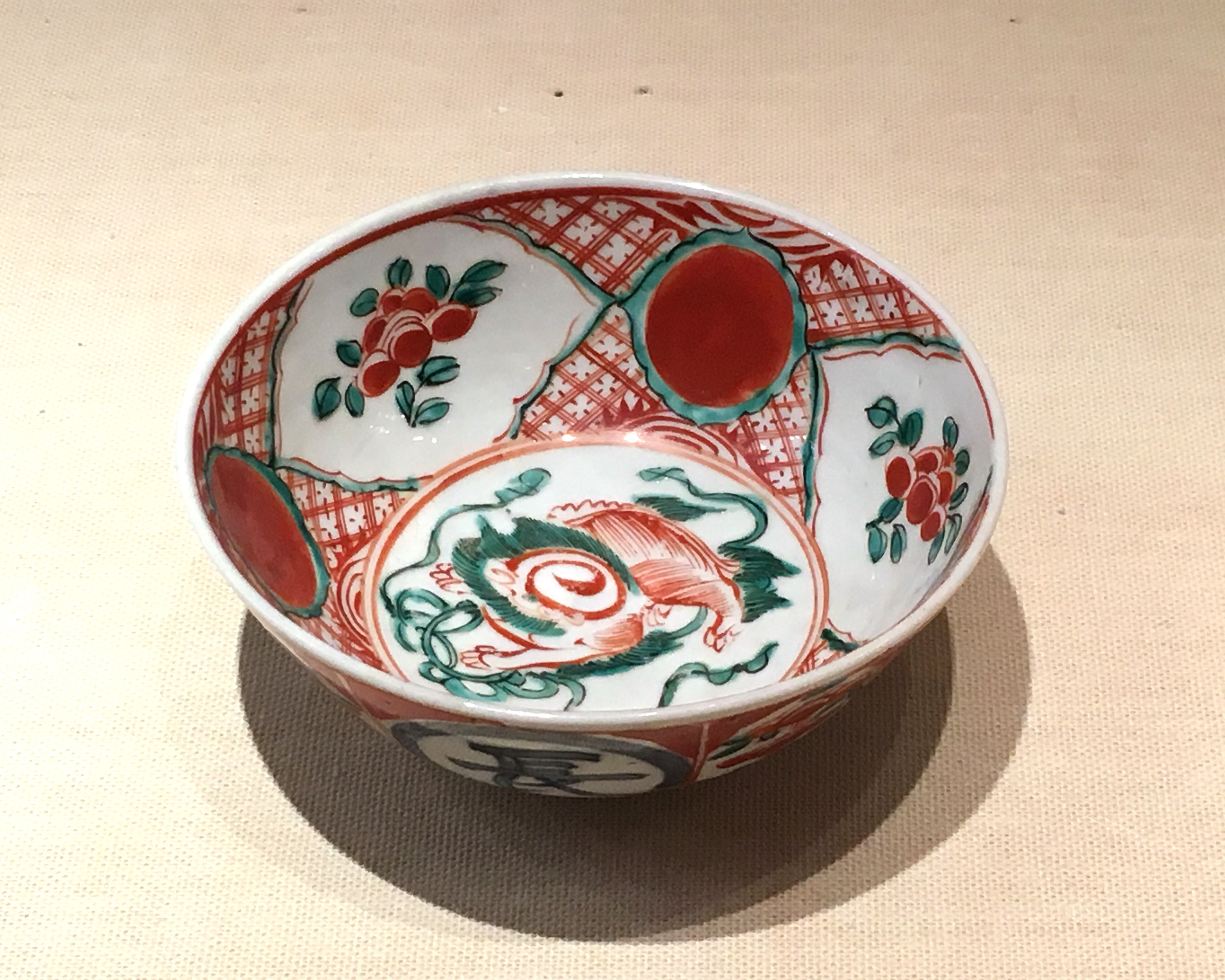 Bowl, overglaze enamels Inuyama ware Edo period, 19th century Aichi Prefectural Ceramic Museum (Gift of Mr. Kawasaki Otozo)